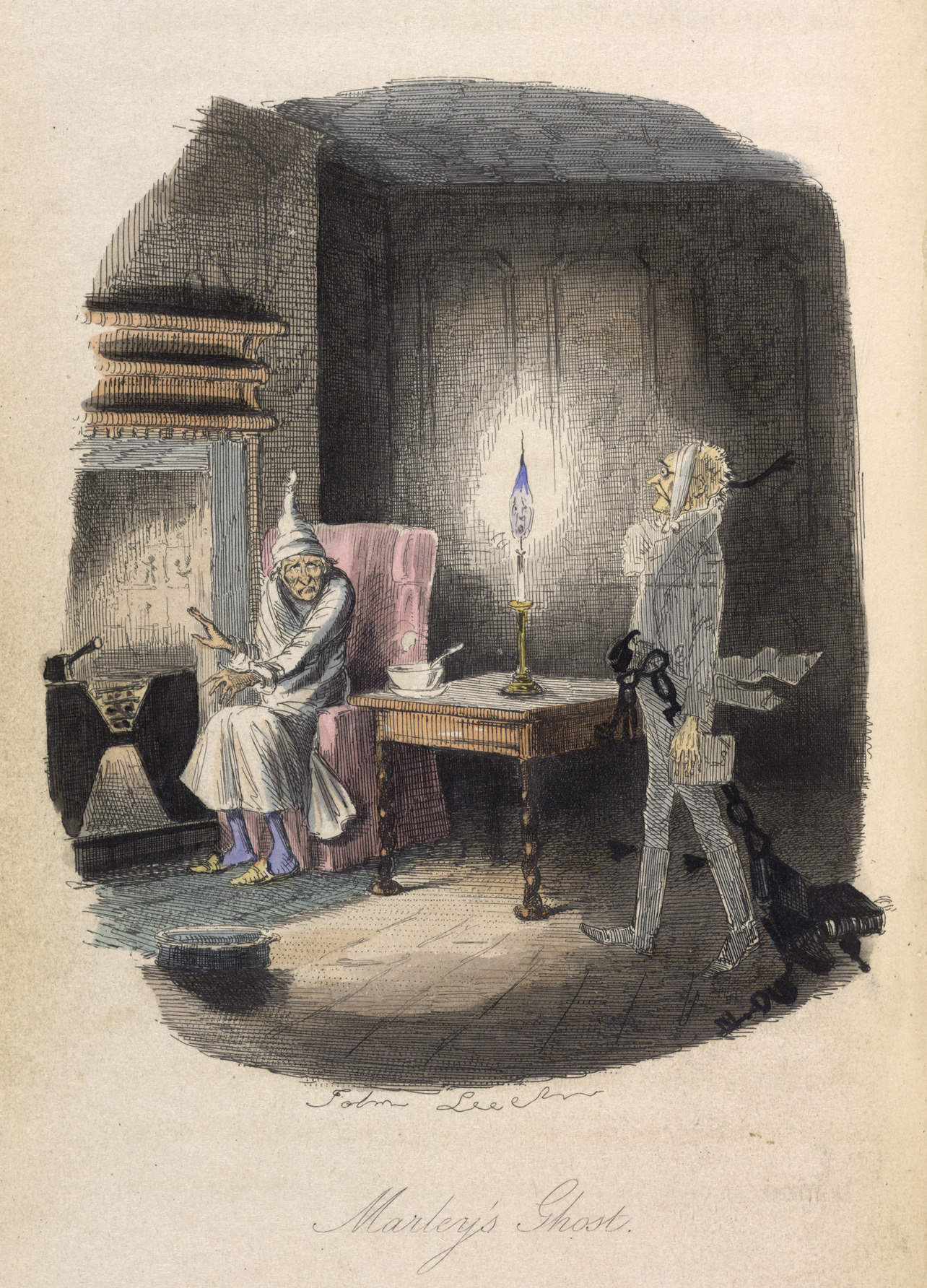 Marley's Ghost. Ebenezer Scrooge visited by a ghost. Colour illustration from 'A Christmas Carol in prose. Being a Ghost-story of Christmas', by Charles Dickens, With illustrations by John Leech.